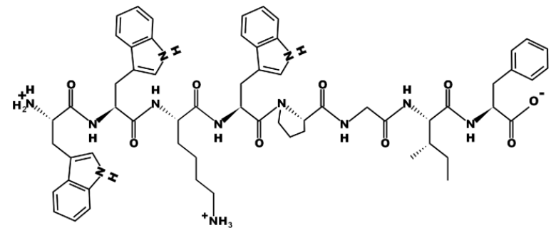 Primary structure QBP1 peptide: WWKWPGIF